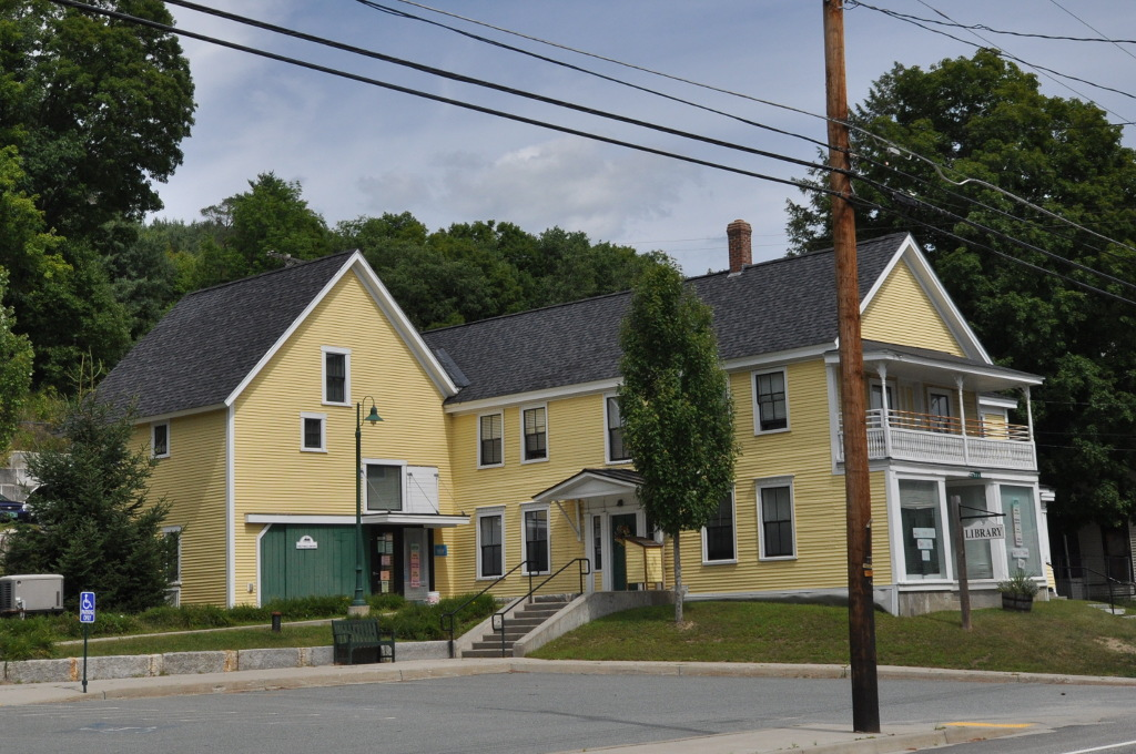 Alice Lord Goodine House, now housing the Groton Public Library, Groton, Vermont.